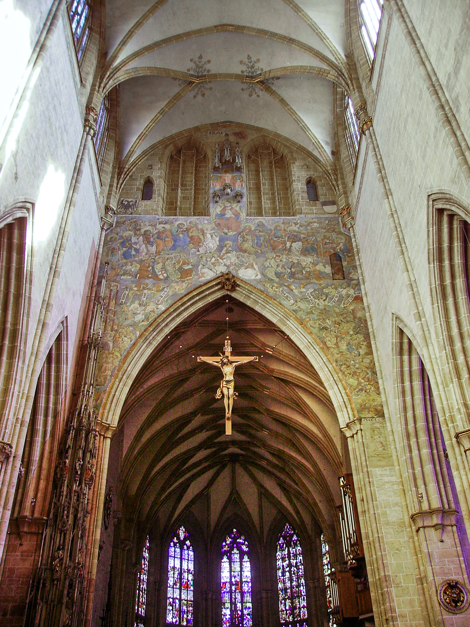 Choir Arch of the Minster, Ulm